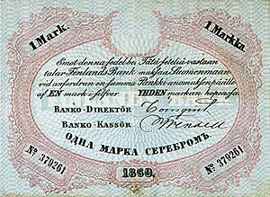 Finnish 1 Markka banknote from en:1860 Source: Historical Finnish banknotes and coins at BANK OF FINLAND site.